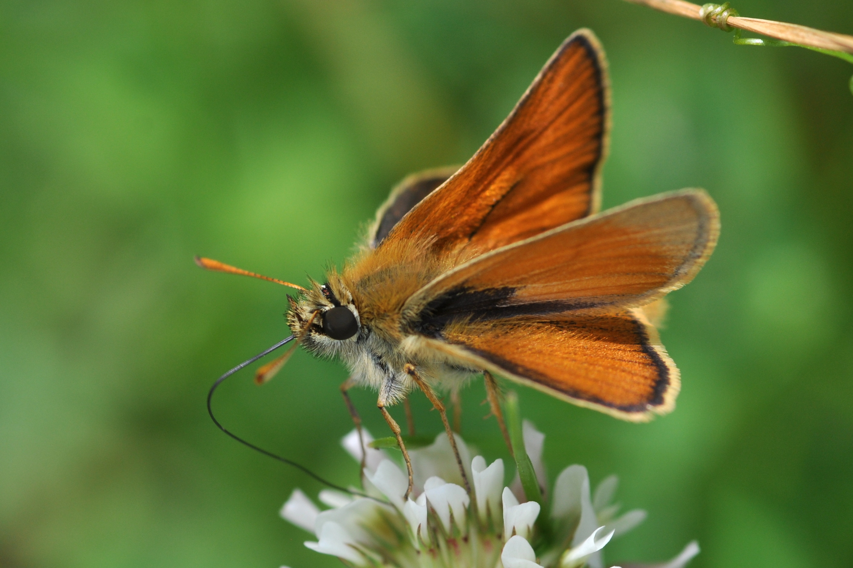 Small Skipper Thymelicus sylvestris male in Bahrenfeld, Hamburg.